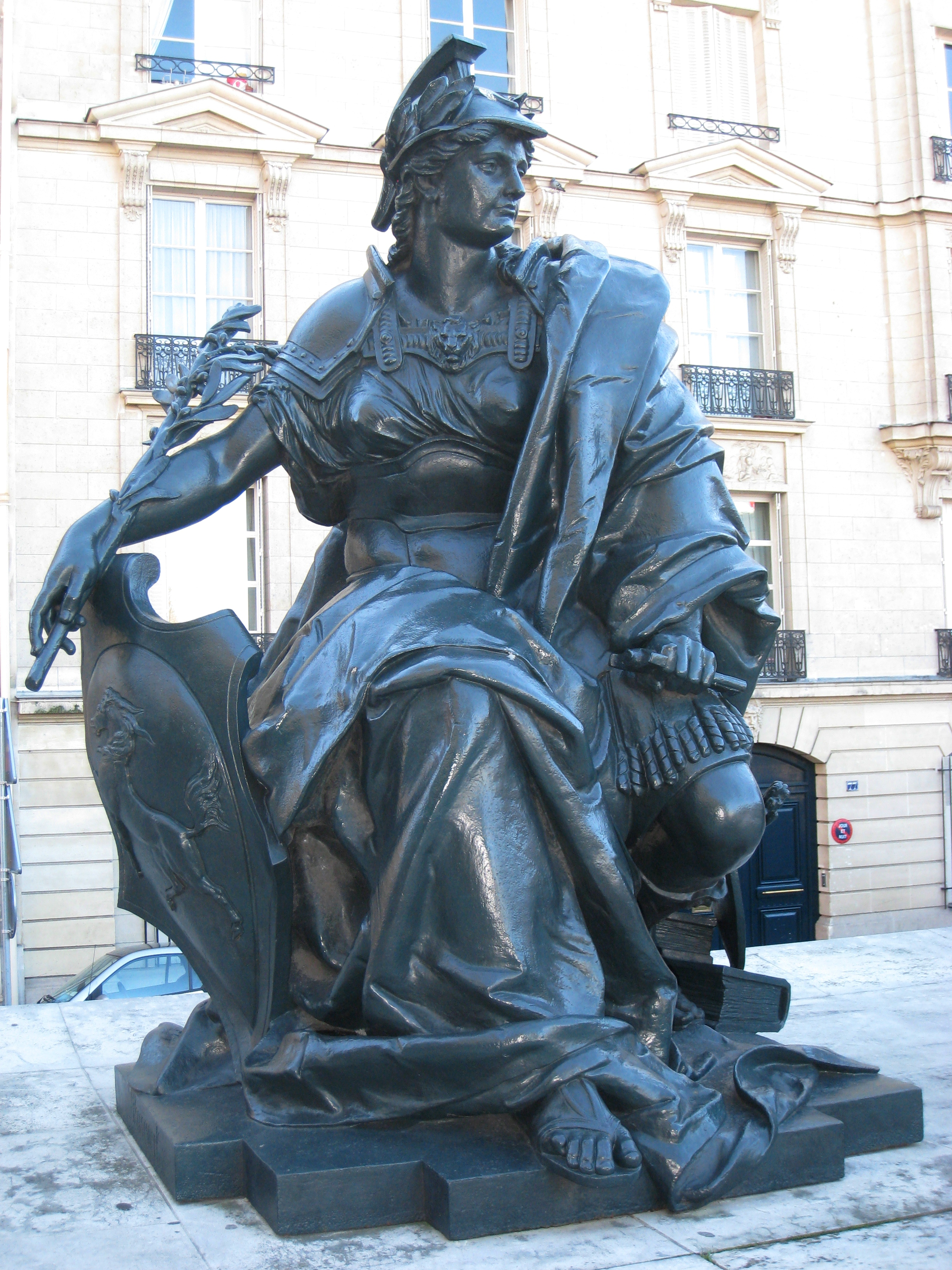 Alexandre Schoenewerk - L'Europe - parvis du Musée d'Orsay, Paris, France. This statue is old enough so that copyright (if any) has long since expired.